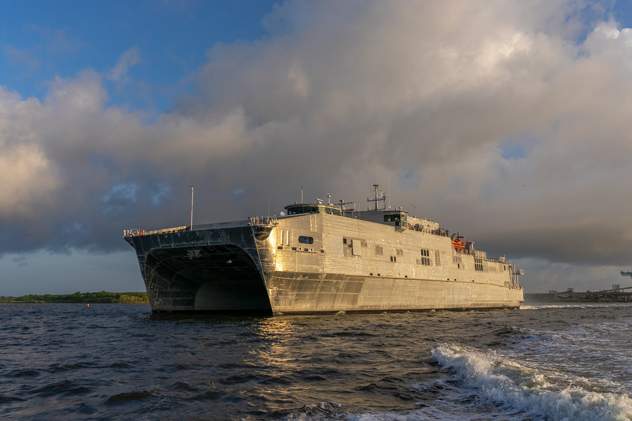 190822-N-N2201-0001 MOBILE, Ala (Aug. 22, 2019) The expeditionary fast-transport ship USNS Puerto Rico (EPF 11) successfully completed the first integrated sea trials for an expeditionary fast transport ship Aug. 22. Integrated Trials combine Builder's and Acceptance Trials, allowing for the shipyard to demonstrate to the Navy's Board of Inspection and Survey the operational capability and mission readiness of all the ship's systems during a single underway period. (U.S. Navy photo courtesy of Austal USA Navy/Released)